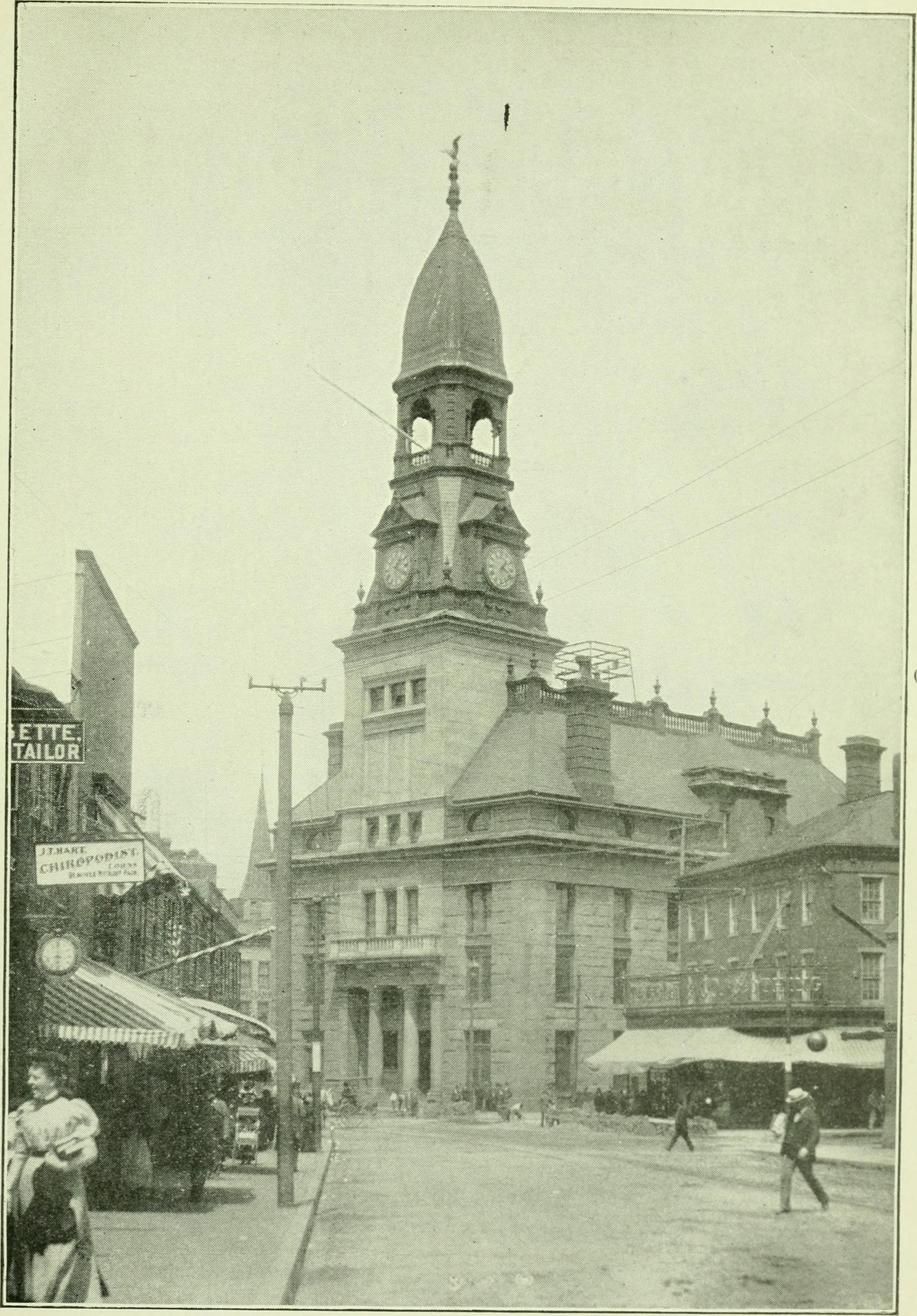 Title: Fall River, Massachusetts, a publication of personal points pertaining to a city of opportunity Year: 1911 (1910s) Authors: Fall River trade and industry association. (from old catalog) Subjects: Fall River (Mass.) Publisher: (Fall river) Fall River trade and industry association Text Appearing Before Image: HOX. THOMAS F. HIGGIXS IMAYOR 19 PROMPT PRIVATE PERFECT Fall RiverAutomatic Telephone Co p. O. BOX 133 215 Um STKEET, FALL RIVEK, MASS. THE AUToriATIC IS CONNECTED WITH NEW BEDFORD This company has been the means of very materiallyreducing- the telephone rates in Fall River. Give Us Your Patronage and Keep the Prices DownPublic Pay Stations at conveniert places throughout the city Fall River Gas Works Co. o H Lightmo- by the WELSBACII LI(;HT ^ • m — is the most econoinie;il^ illumination known . . r — L At the present low price of Gas,Cooking by a GAS RANGE is as cheapor cheaper than by coal. OFFICE 62 NORTH MAIN STREET FALL RIVER, MASS, so Text Appearing After Image: SOUTH MAIN STREET AND CITY HALL EE) E3 THH ^ ^ American Thread Company KERR MILLS FALL RIVER, MASS. ORGANIZED 1903 CAPACITY 60,000 PER DAY INCORPORATED 1906 The Joseph Hoyle Bobhin Co. JOSEPH HOYLE, President and Mana.;er MANUFACTURERS OF WARP & FILLING BOBBINS, SKEWERS, ETC. SLUBBERS, SPEEDERS, AND TWISTERS FOR COTTON AND WOOLEN MILLS. Our Specialty: Enamelled Bobbins 75 Pord St., Woonsocket, R. L To THE Cotton Maxufacturer.s: Fall River is all right, and we appreciate the business we are receiving from your cit)We are only .5 minutes away, and are pleased to call on you and quote prices. A postal willbring our representative the day following, a telephone the same day. We make a full line ofall kinds of bobbins, and sell spools. THE JOSEPH HOYLE BOBBIN CO., An Independent Factory 75 Pond Street, Woonsocket R I With Experienced Men.